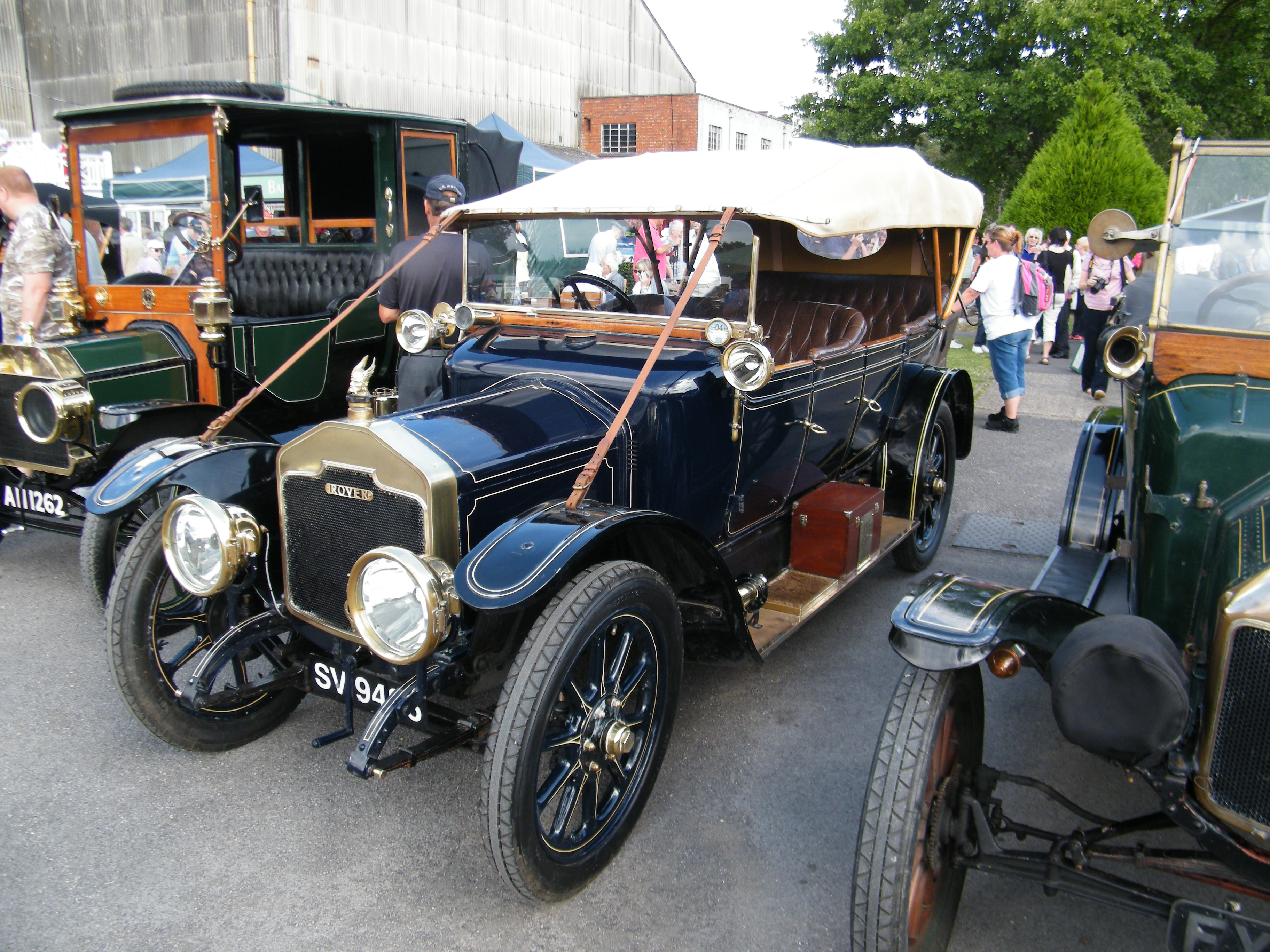 1914 Rover 12 tourer SV9486 (DVLA) first registered 24 January 1921 Great War 100 Brooklands Museum Weybridge Surrey 3rd. August 2014